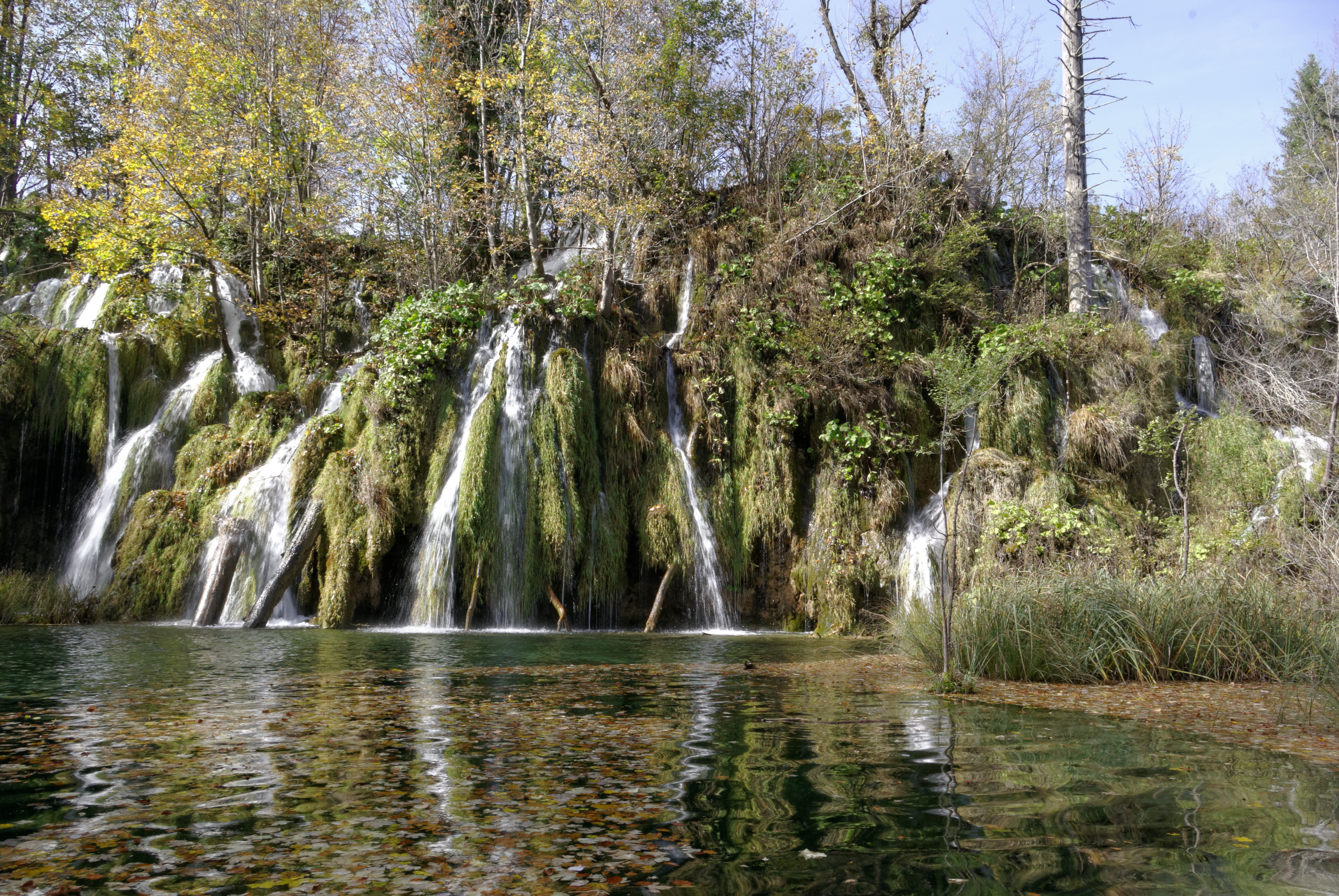 Croatia, Plitvice Lakes National Park